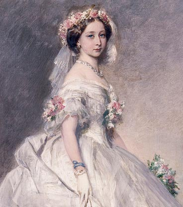 Princess Alice of the United Kingdom, later Princess Louis and Grand Duchess of Hesse, portrayed in the dress she wore at her first Drawing Room.